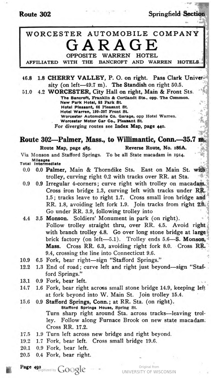 Page 492 of 1914 volume 2, showing advertisement and start of route between and. Listed as public domain at